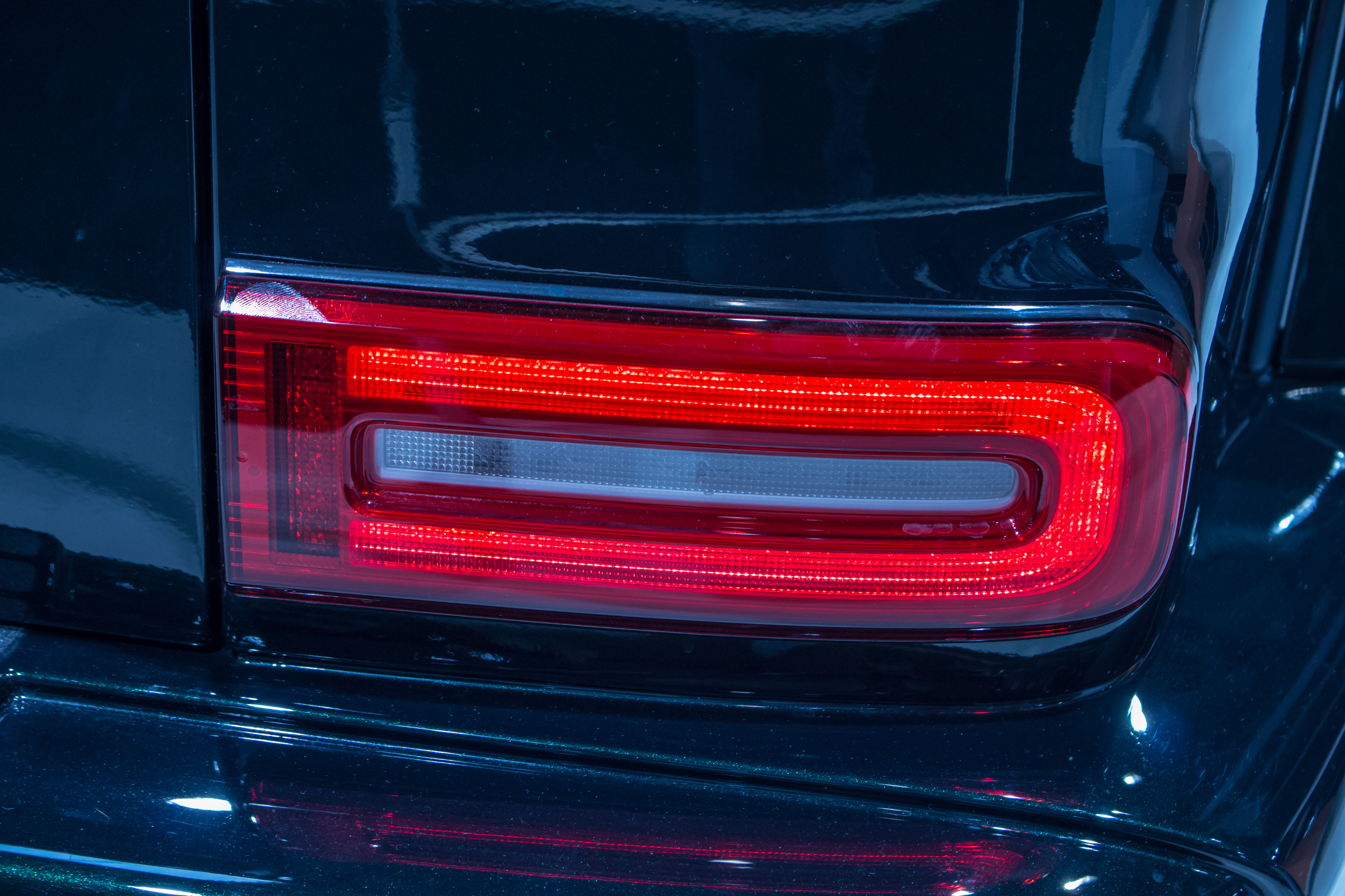 New rear light of the Mercedes-Benz G-Class, Techno-Classica 2018, Essen